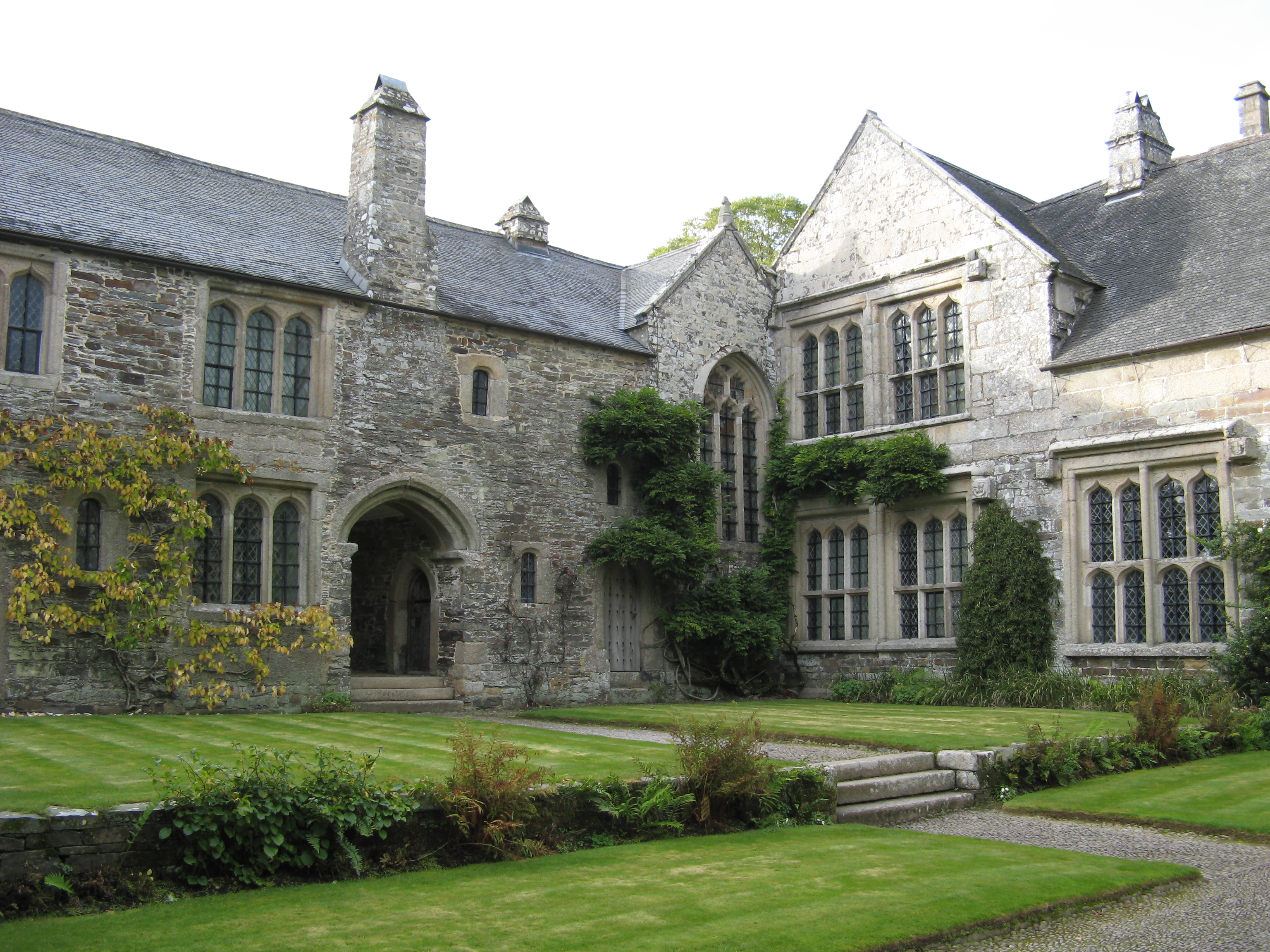 Cotehele National Trust property, house from courtyard.